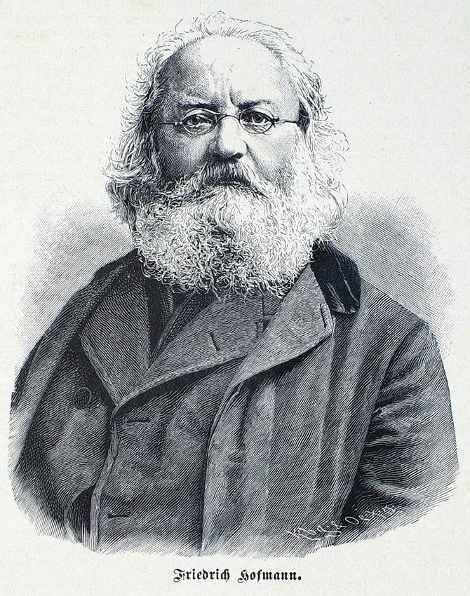 Image from page 497 of journal Die Gartenlaube, 1886.